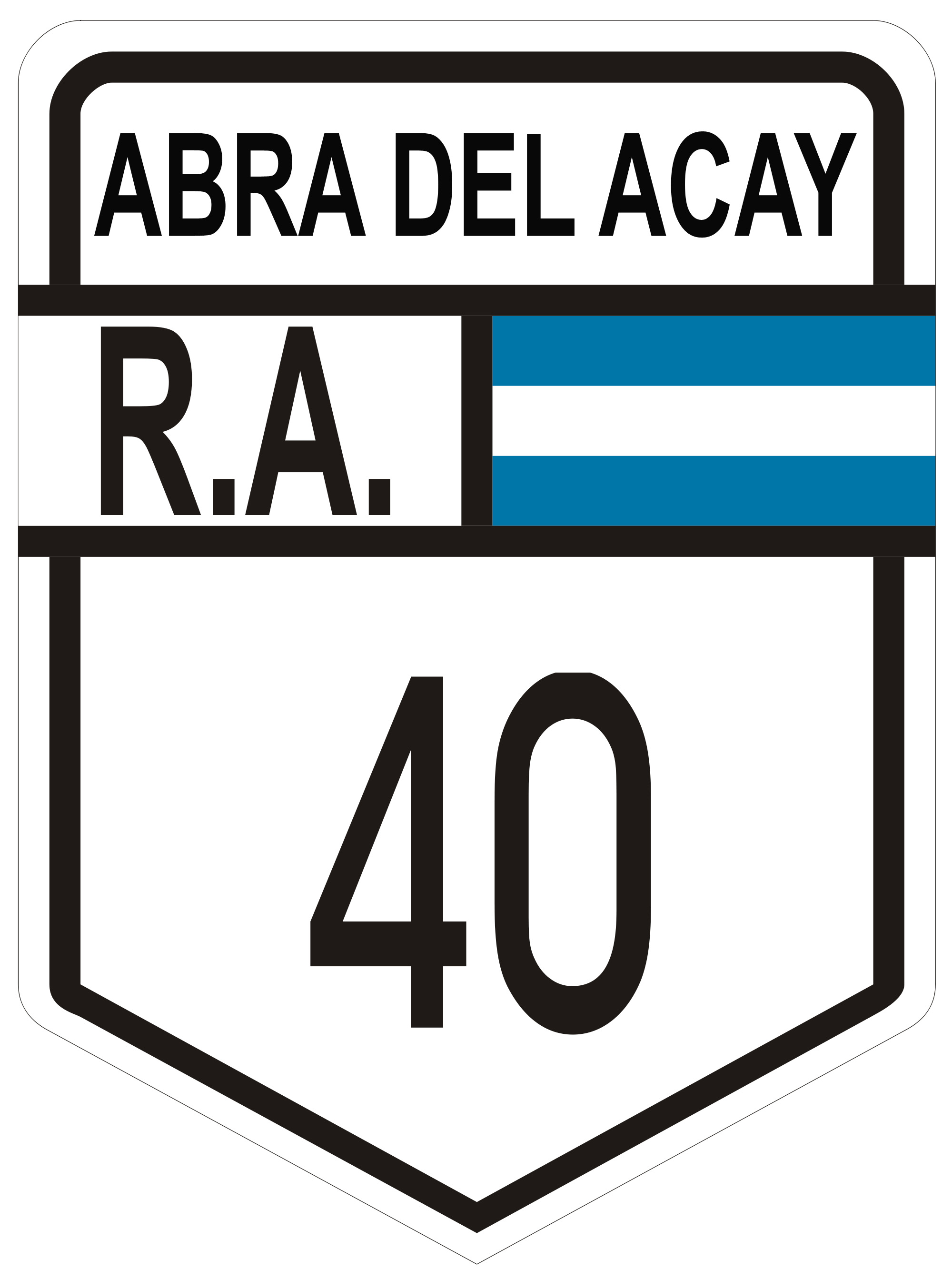 Abra del Acay, Salta province (Argentina).